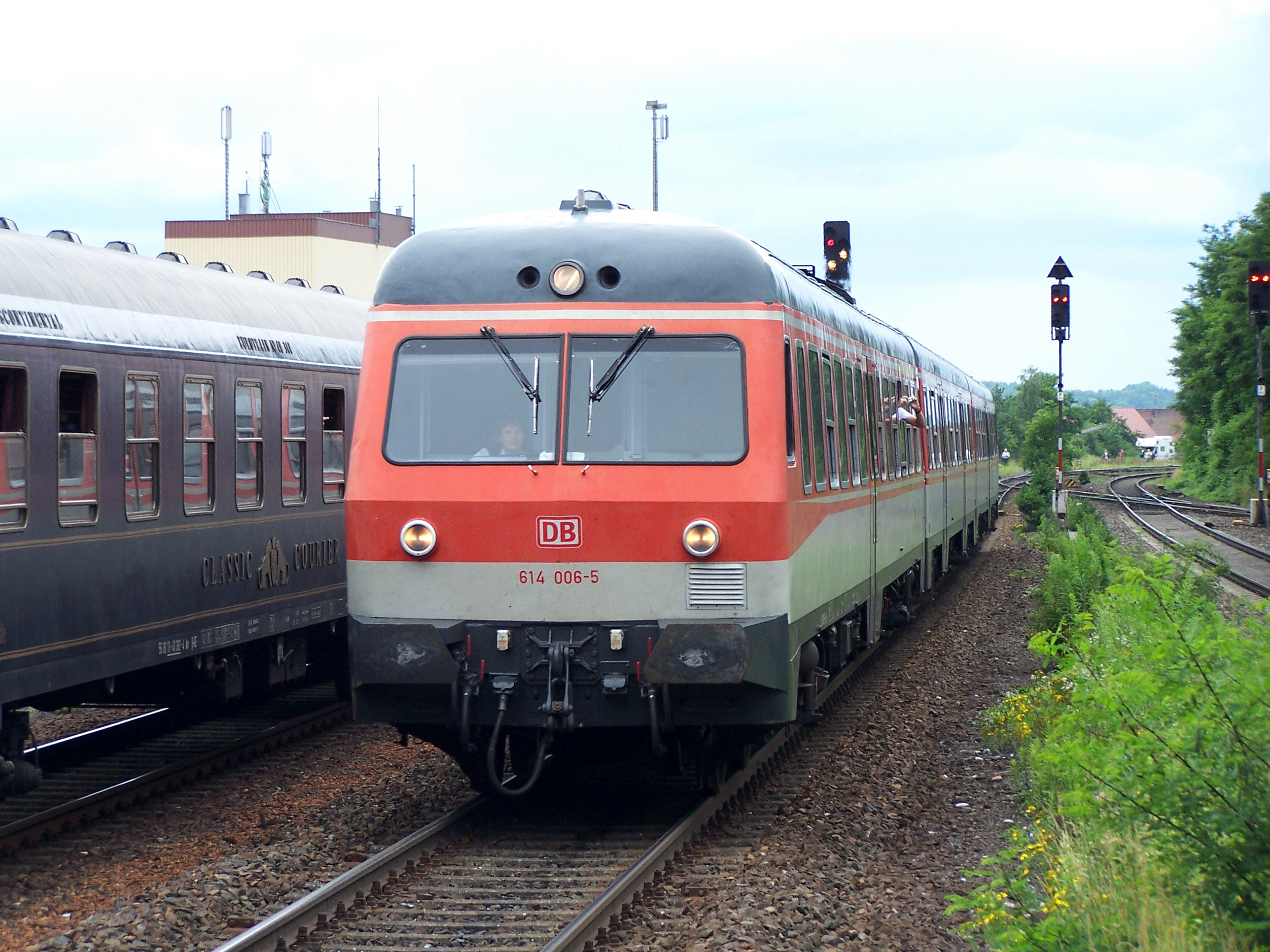 Diesel multiple unit 614 006 + 914 003 + 614 005 in Pop-paint in Hersbruck, Germany, June 30th, 2007